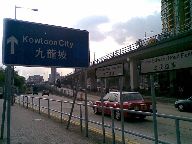 Prince Edward Road East and West, Kowloon City, Hong Kong. Photo taken by myself (User:Sl) on 11 October 2007. 香港九龍城太子道東和太子道西交界，在2007年10月11日拍攝。